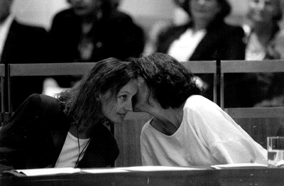 Kerry Tucker and Lucy Horodny, two Greens members of the Australian Capital Territory Legislative Assembly in the 1990s